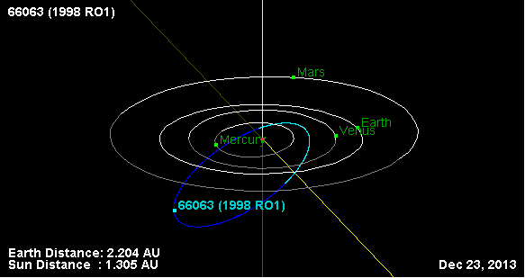 This diagram illustrates the orbit of the Main-Belt asteroid (66063) RO1.